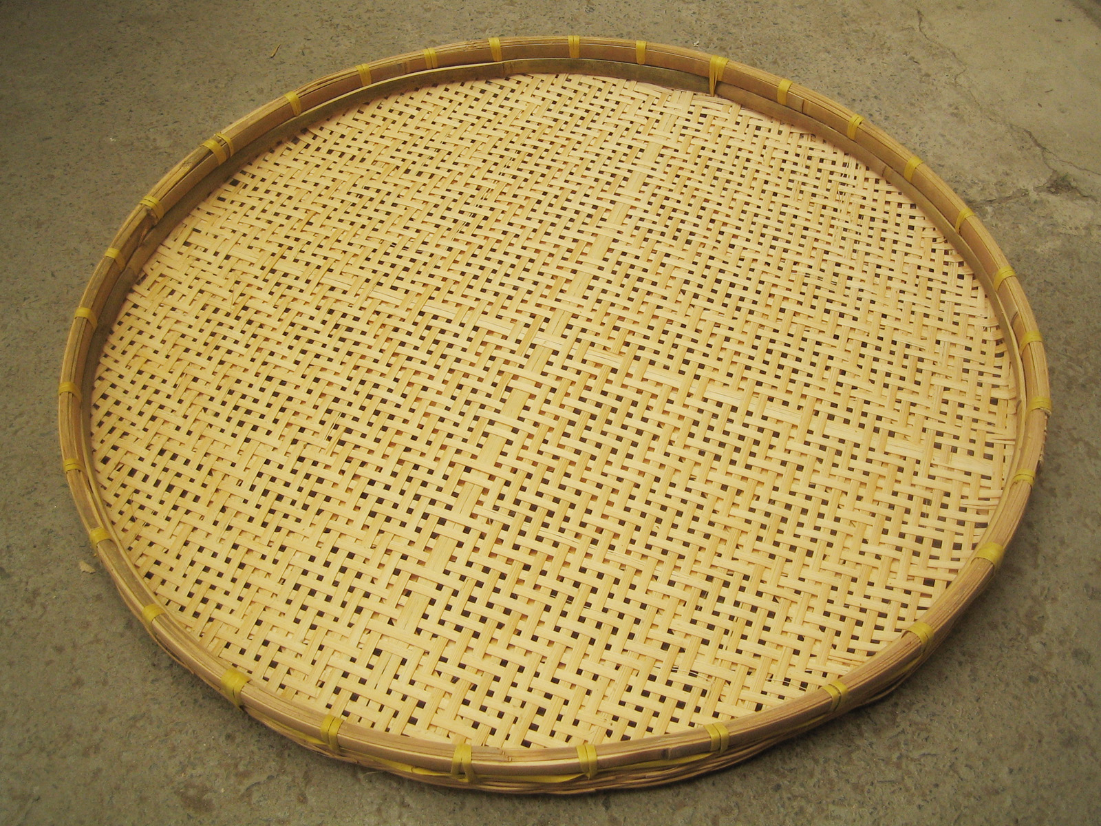 ざる（笊）。粒状物の選別や水切りに使用する Zaru (笊), used for sieving or draining